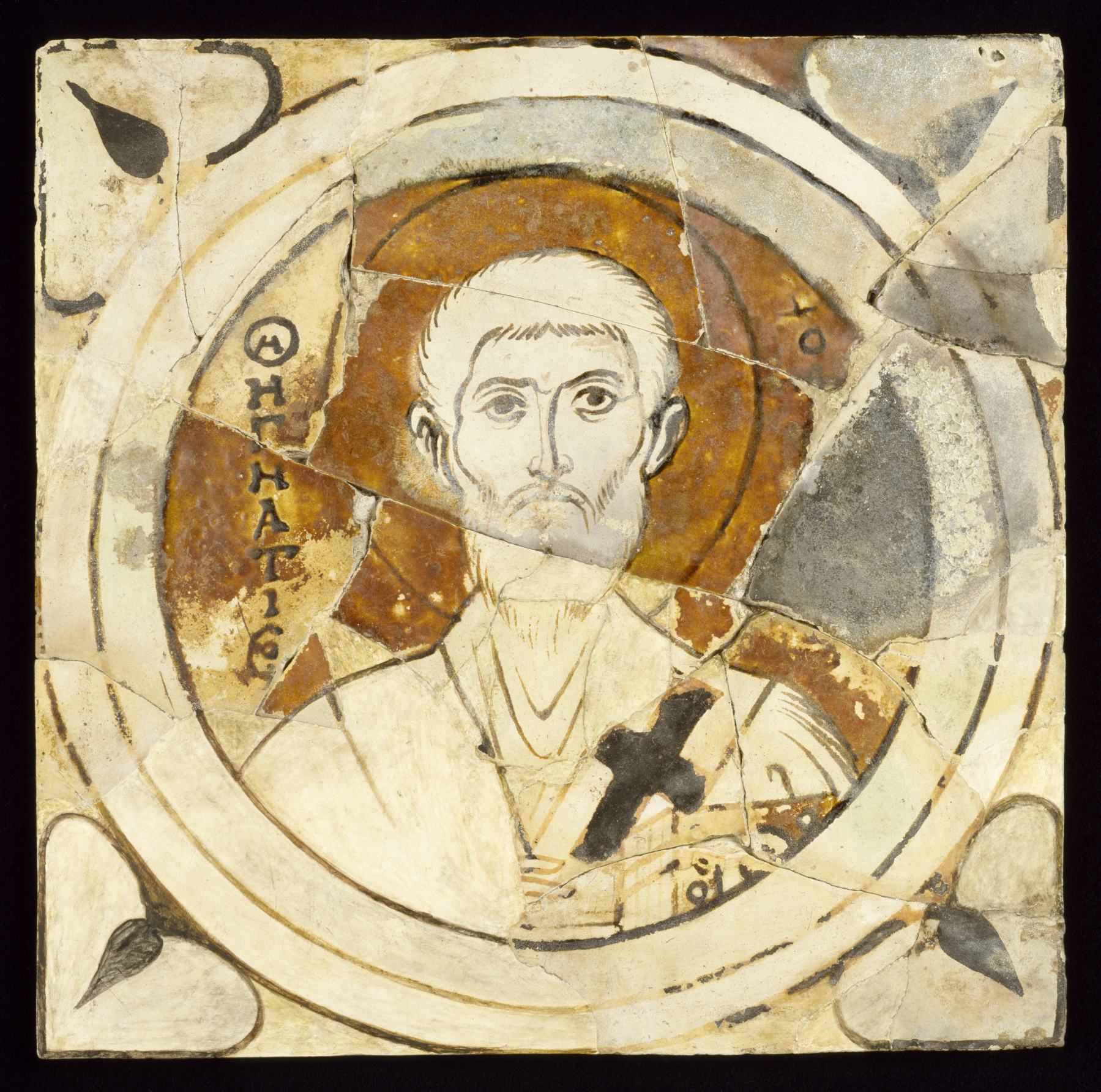 This unusually large tile depicts Ignatius the "God-Bearer" (Theophoros), bishop of the Syrian city of Antioch, who was martyred in Rome under Emperor Trajan (r. 98-117). Dressed in liturgical vestments, the saint holds a Gospel book in his hand. Another tile from the same series survives in the Walters collection and carries an image of Saint Christopher (inv. 48.2086.13).